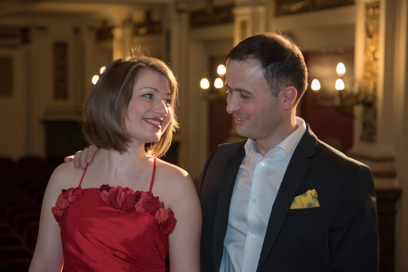 The Latsos Piano Duo